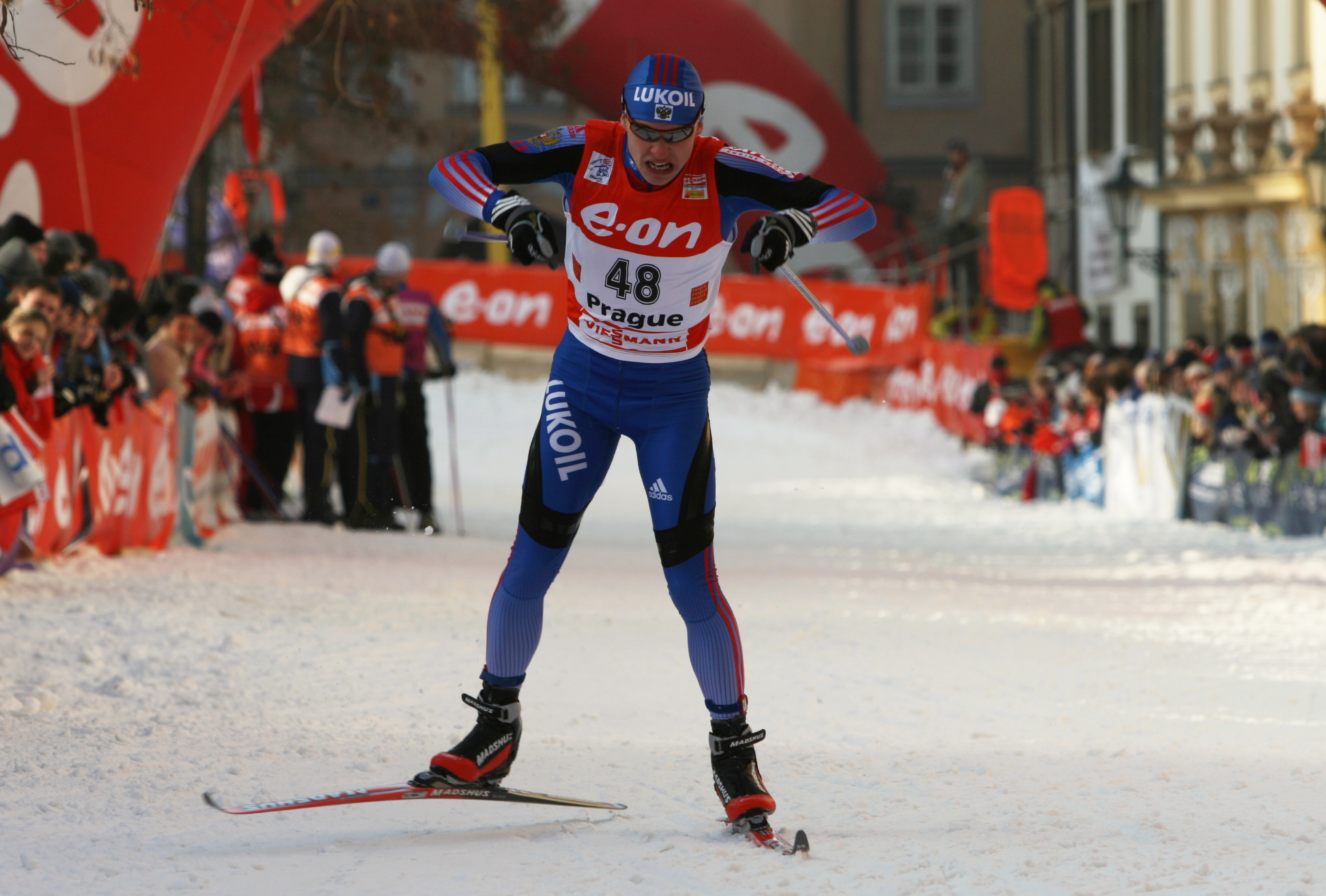 Russian cross-country skier Andrey Parfenov competing at Tour de Ski in Prague